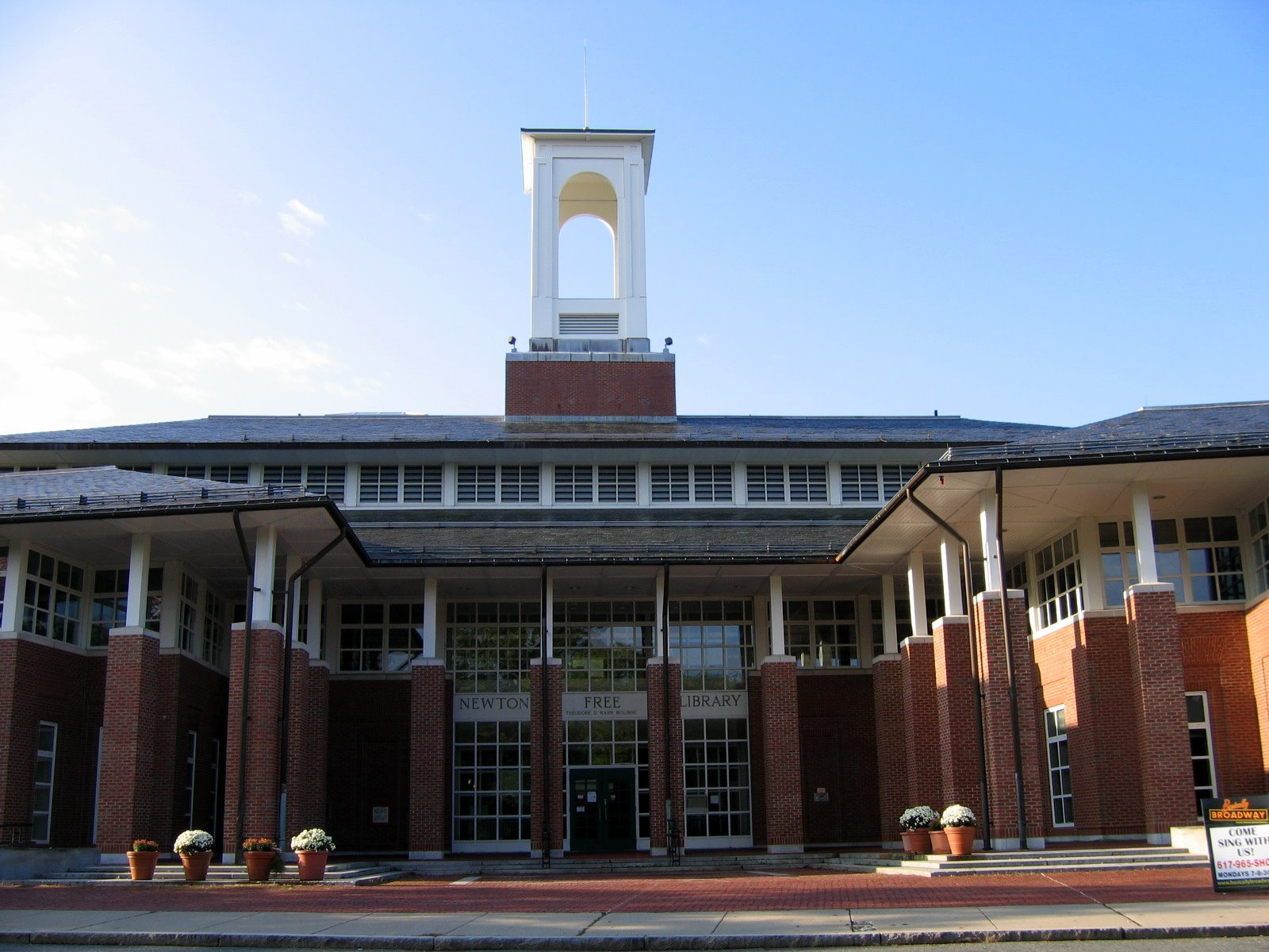 Front Entrance, W. Mainieri